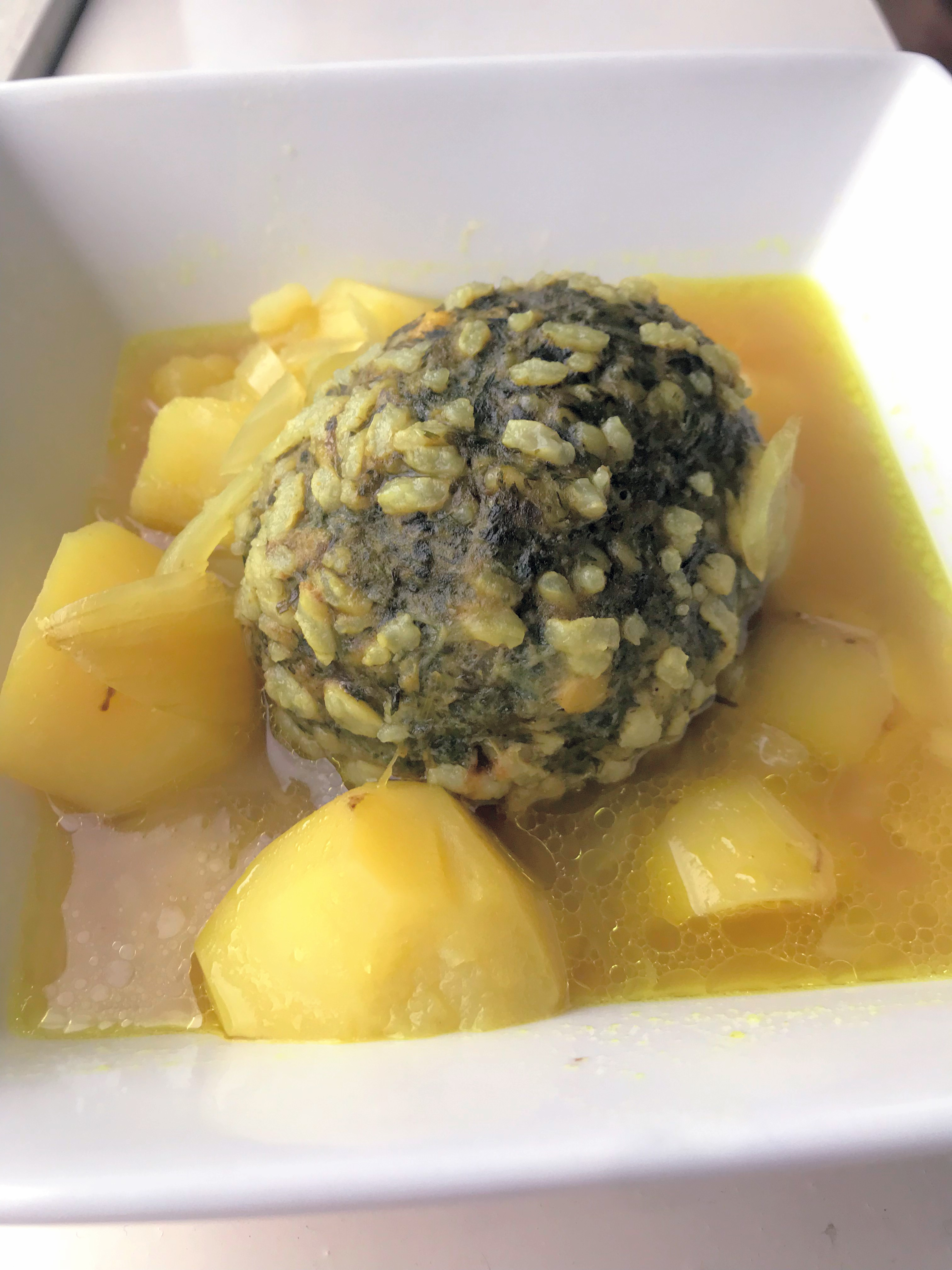 A vegetarian kofta meal